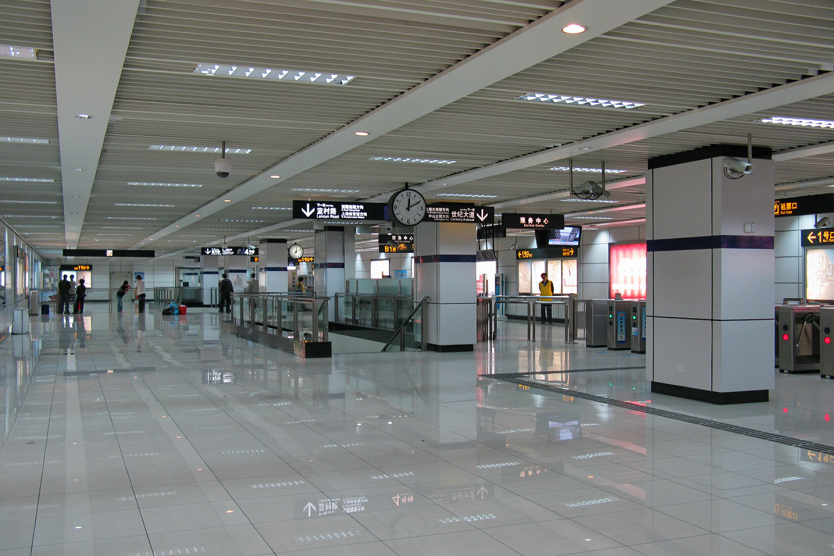 Line 4 Concourse of Pudian Road Station, Shanghai Metro